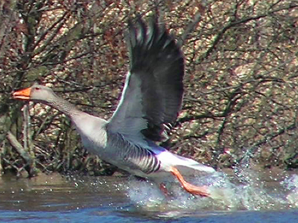 Startled by the approach of the photographer, this Greylag goose lifts off. taken on 17-04-2006 11:39, by Jens Buurgaard Nielsen. Location: Near Krommenie, the Netherlands. exposure time 1/640 sec